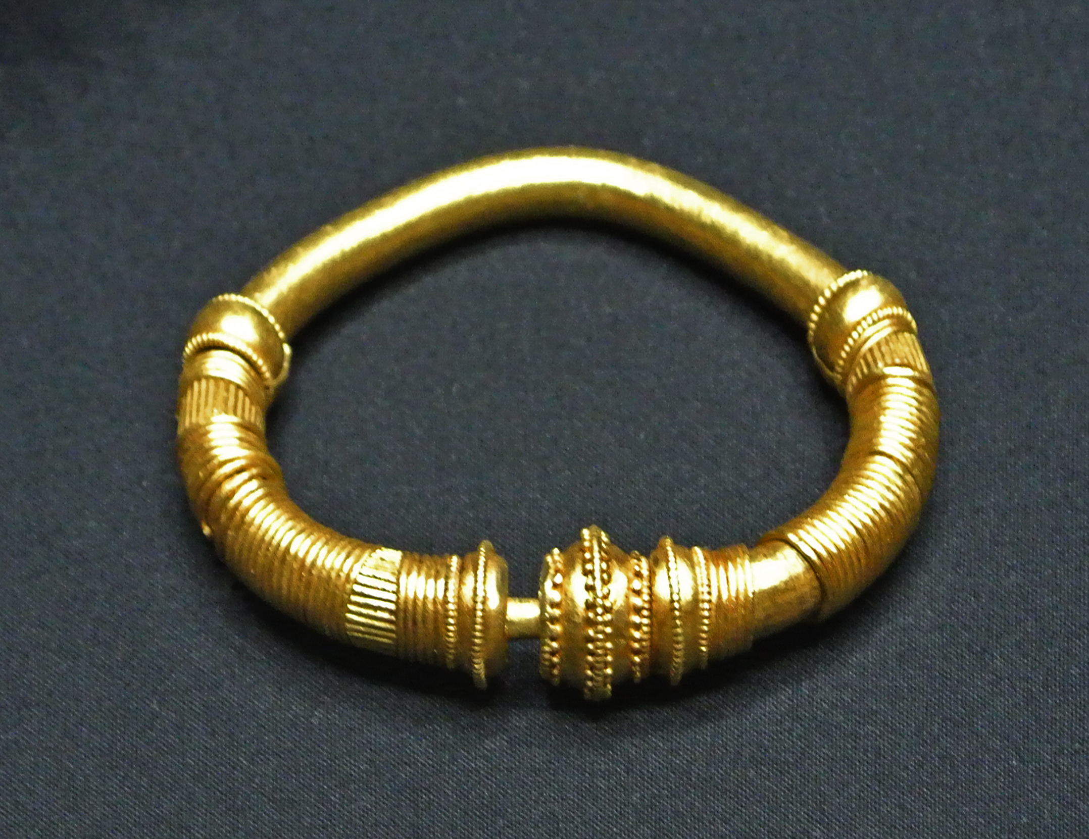 Germanic arm ring with plug clasp